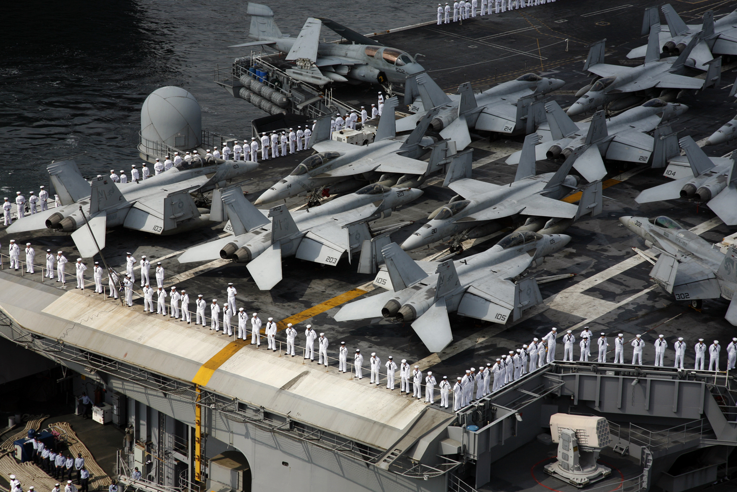 YOKOSUKA, Japan (Sept. 25, 2008) Sailors aboard the aircraft carrier USS George Washington (CVN 73) man the rails as they arrive at Fleet Activities Yokosuka, Japan. George Washington and Carrier Air Wing 5 will be operating from Fleet Activities Yokosuka as the U.S. Navy's only forward-deployed aircraft carrier. U.S. Navy photo Kuji Kawabe (Released)